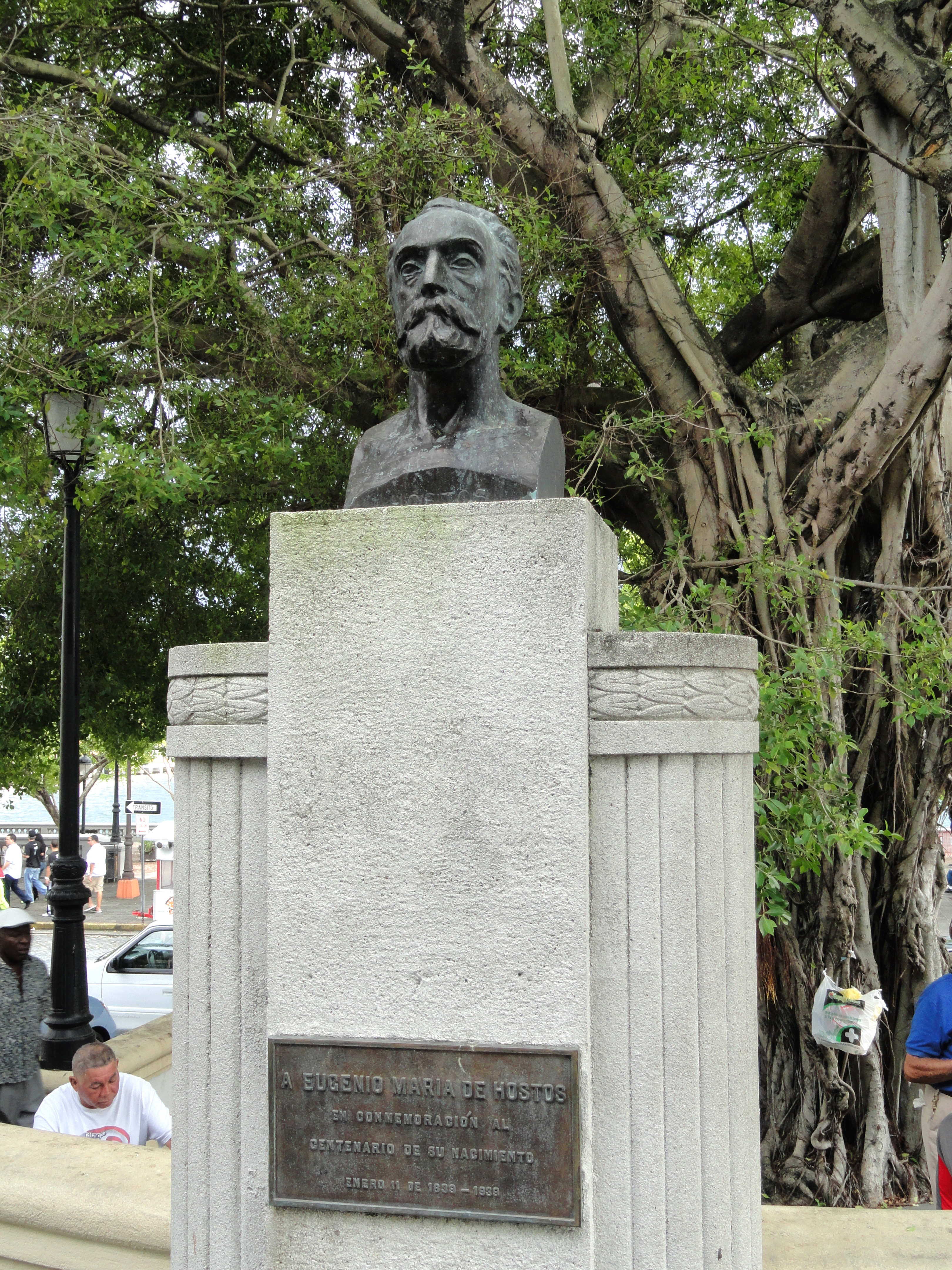 Statue in Old San Juan, Puerto Rico.